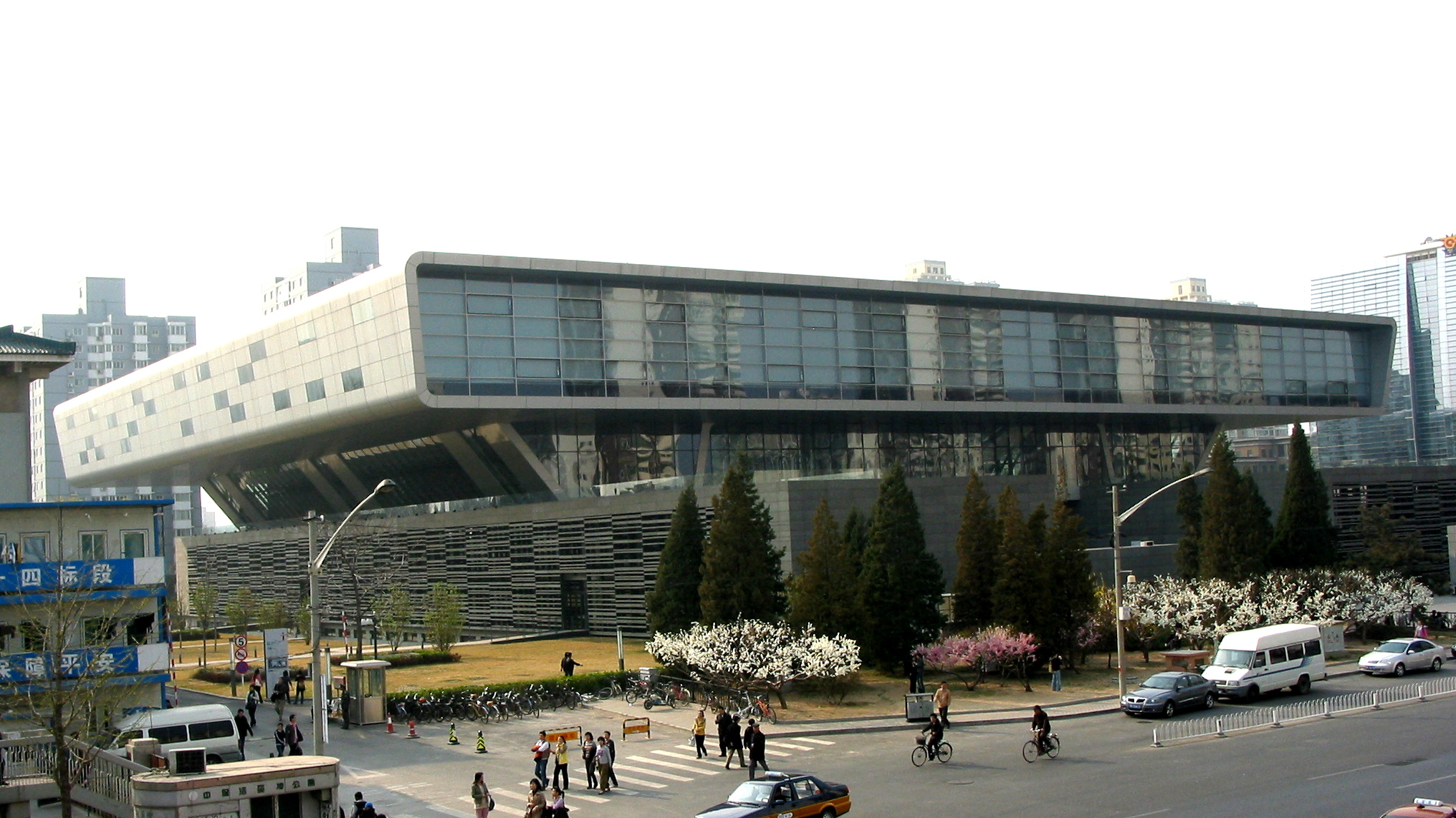 Phase II Building of National Library of China, from Southeast